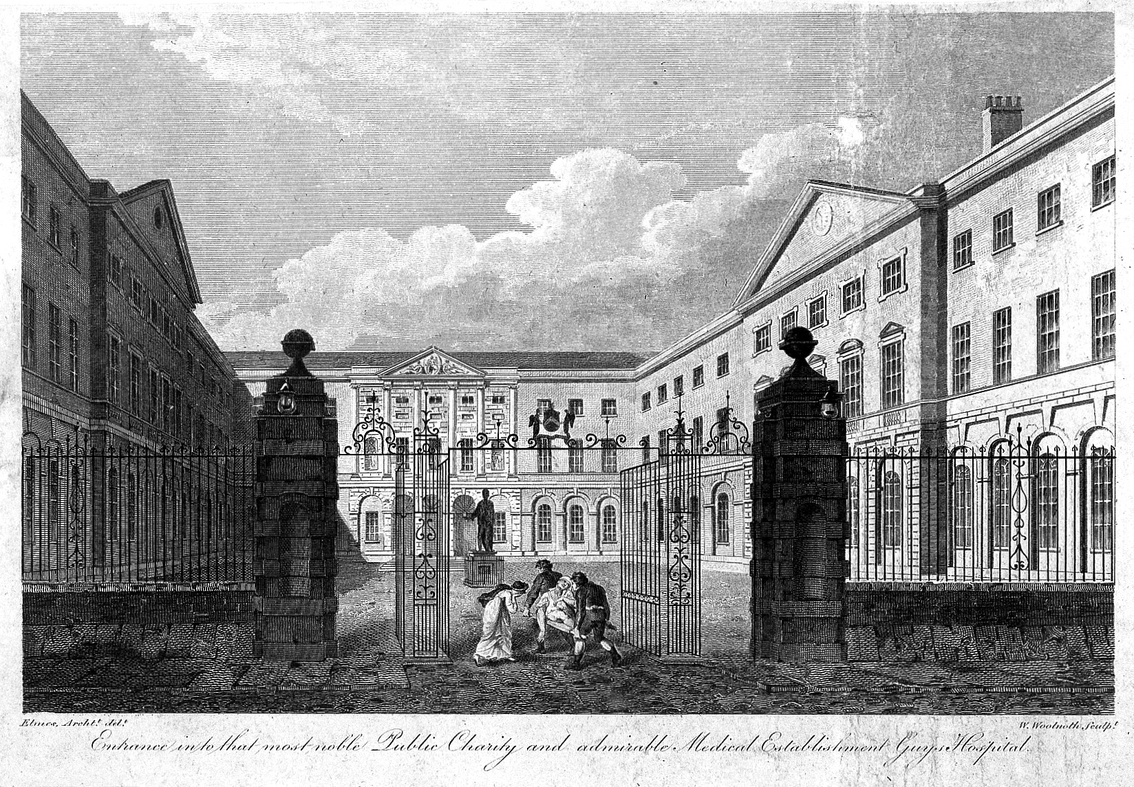 Guy's Hospital, Southwark: the entrance courtyard, with a patient being carried in on a stretcher. Engraving by W. Woolnoth, 1799, after J. Elmes. Iconographic Collections Keywords: Architecture; Institutions; Neoclassicism; Hospitals; London; Architecture as Topic; Thomas Guy; Guy's Hospital (London); James Elmes; William Woolnoth